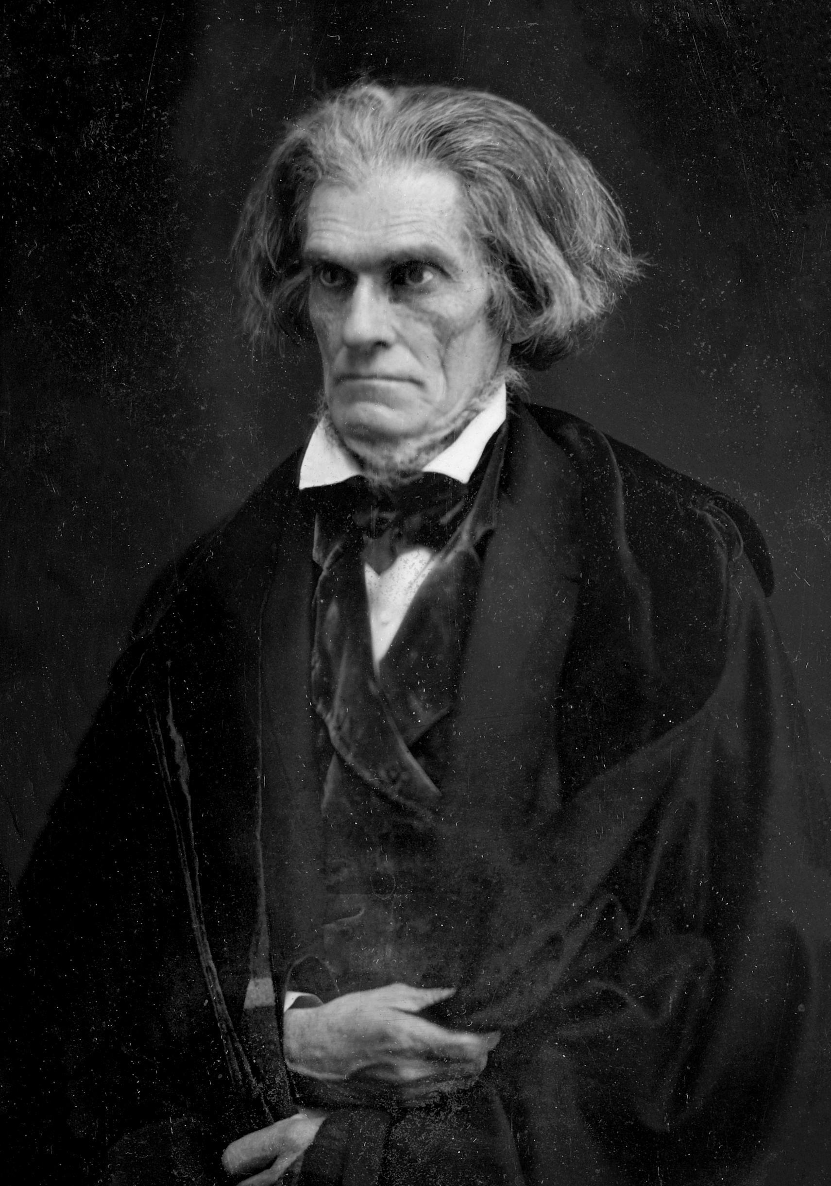 Whole-plate daguerreotype of John C. Calhoun, which sold at auction for $338,500 USD on 06 April 2011. The daguerreotype was copied by Charles G. Crehen and published as a lithograph in 1850.